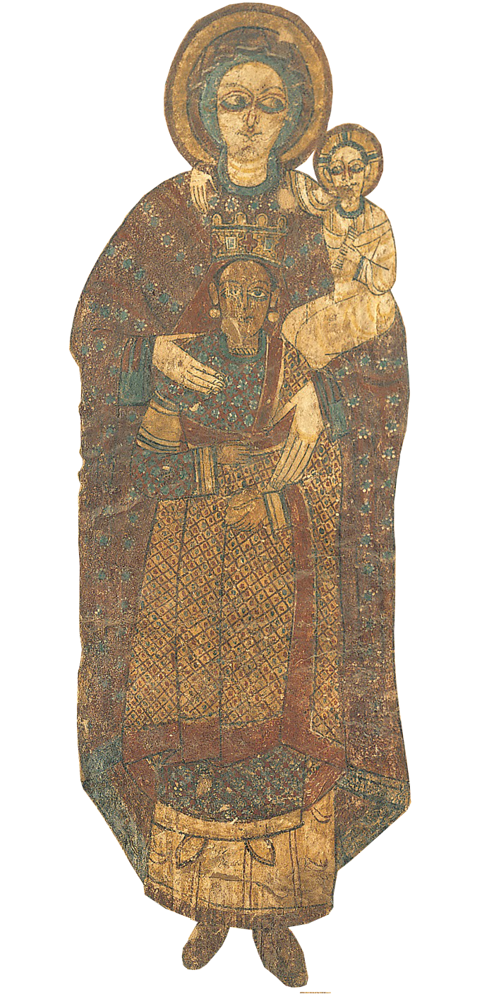 Painting from Faras, Nubia, depicting a female member of the royal Makurian family, perhaps a princess. She is protected by Virgin Mary and the Christ Child. Dated to the 12th century. Michalowski: "Faras. Die Kathedrale aus dem Wüstensand". pp. 167-168.